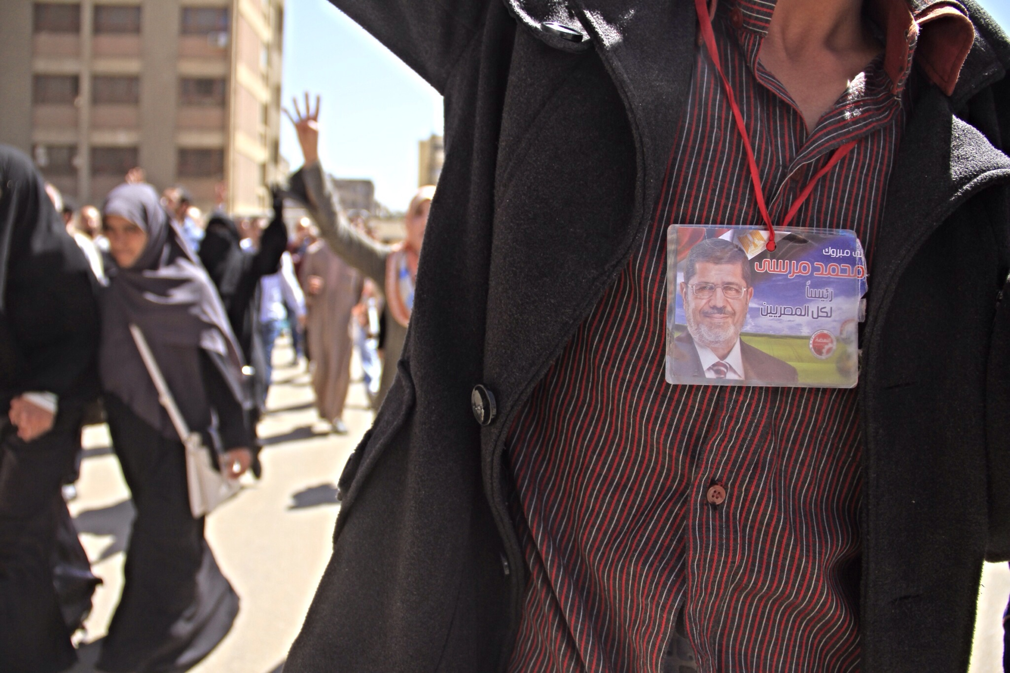 Original description: "A protester wears an image of ousted President Mohamed Morsi during a demonstration in Cairo, March 28, 2014. (Hamada Elrassam/VOA)"